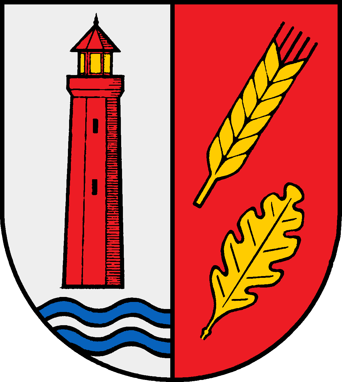 Coat of arms of the municipality Behrensdorf (Ostsee) in Schleswig-Holstein, Germany.